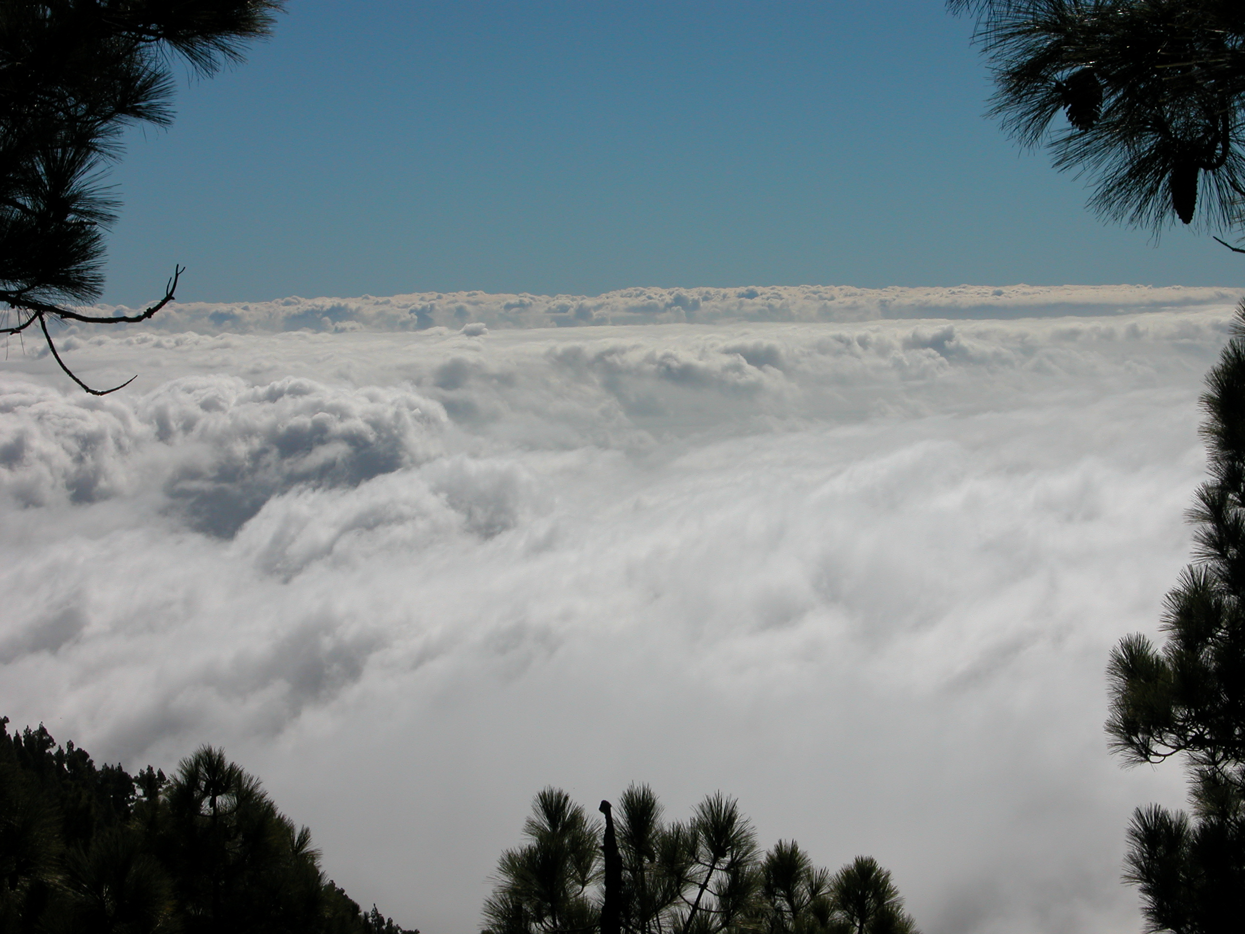 Clouds from above on La Palmauntitled